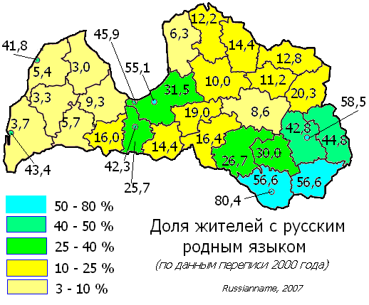 Distribution of the Russian language in Latvia according to data from the 2000 Latvian census.